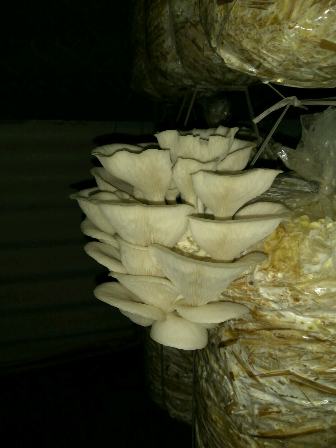 Pleurotus sp.